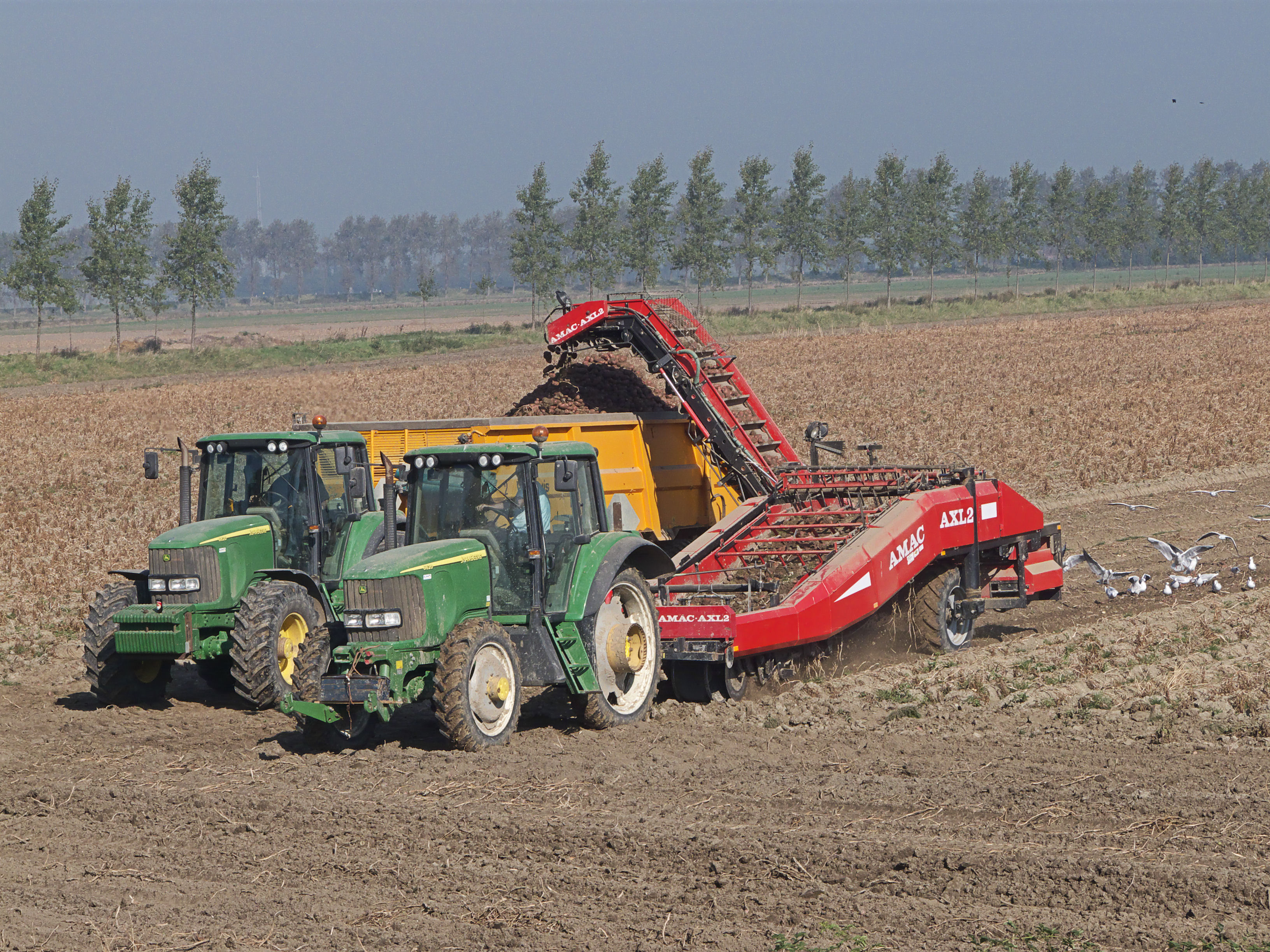 Two John Deere 6620 tractors, one with a trailer, one with a trailed Amac AXL2 potato harvester (Amac is the former name of Agrifac); Kortgene, Netherlands